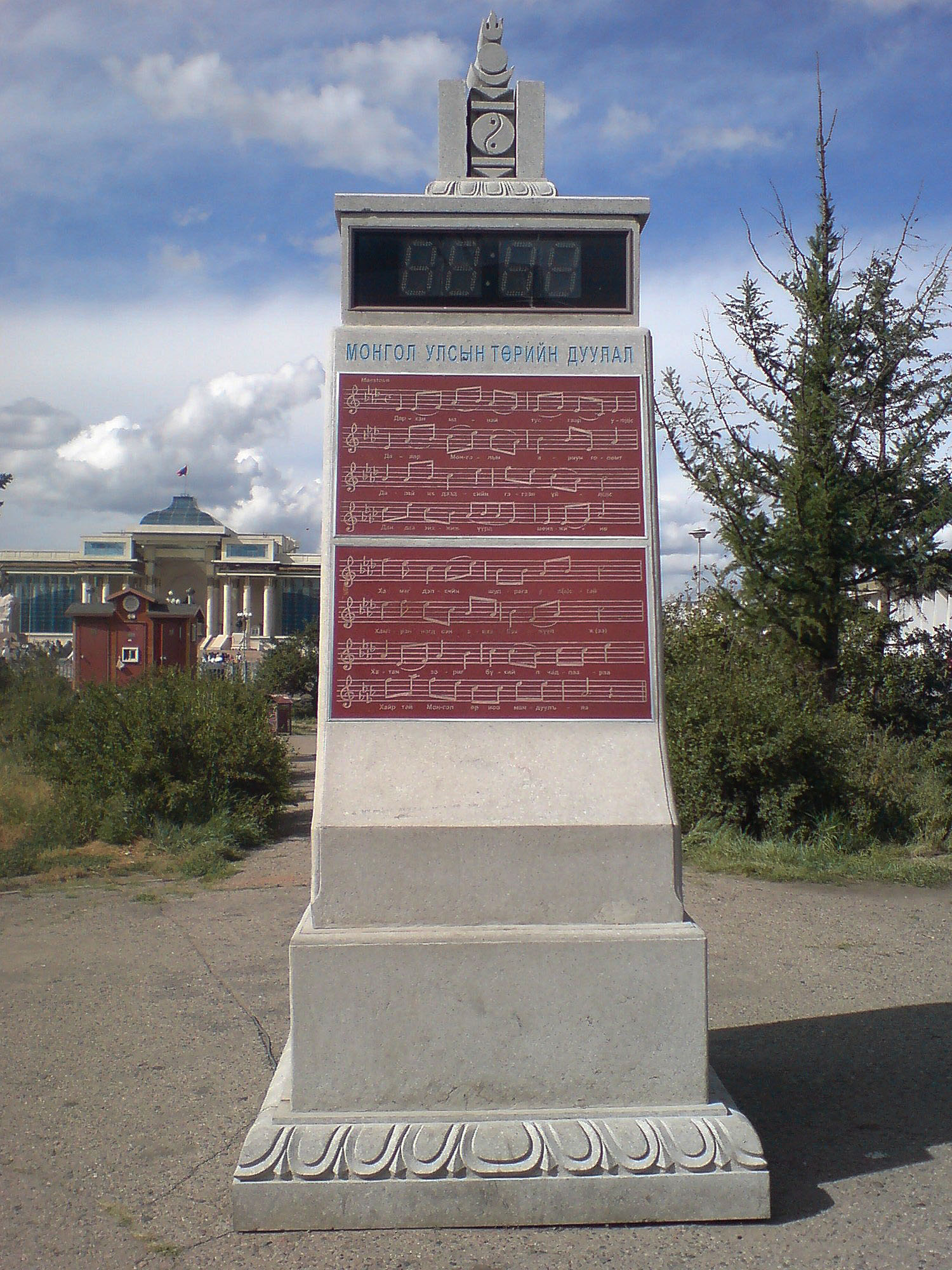 The monument with engraving of Mongolia state's anthem (Sukhbaatar Square, Ulan Bator, Mongolia)